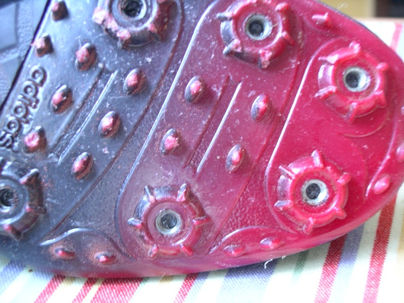 Track spike plate photo